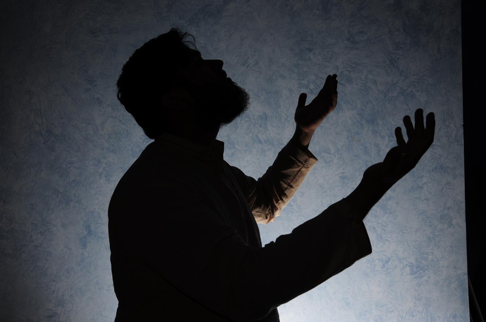 Dua (supplication) to Allah Almighty during night time